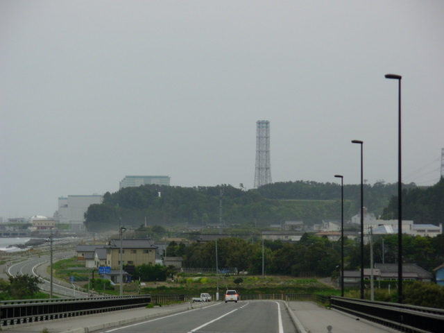 Fukushima II Nuclear Power Plant